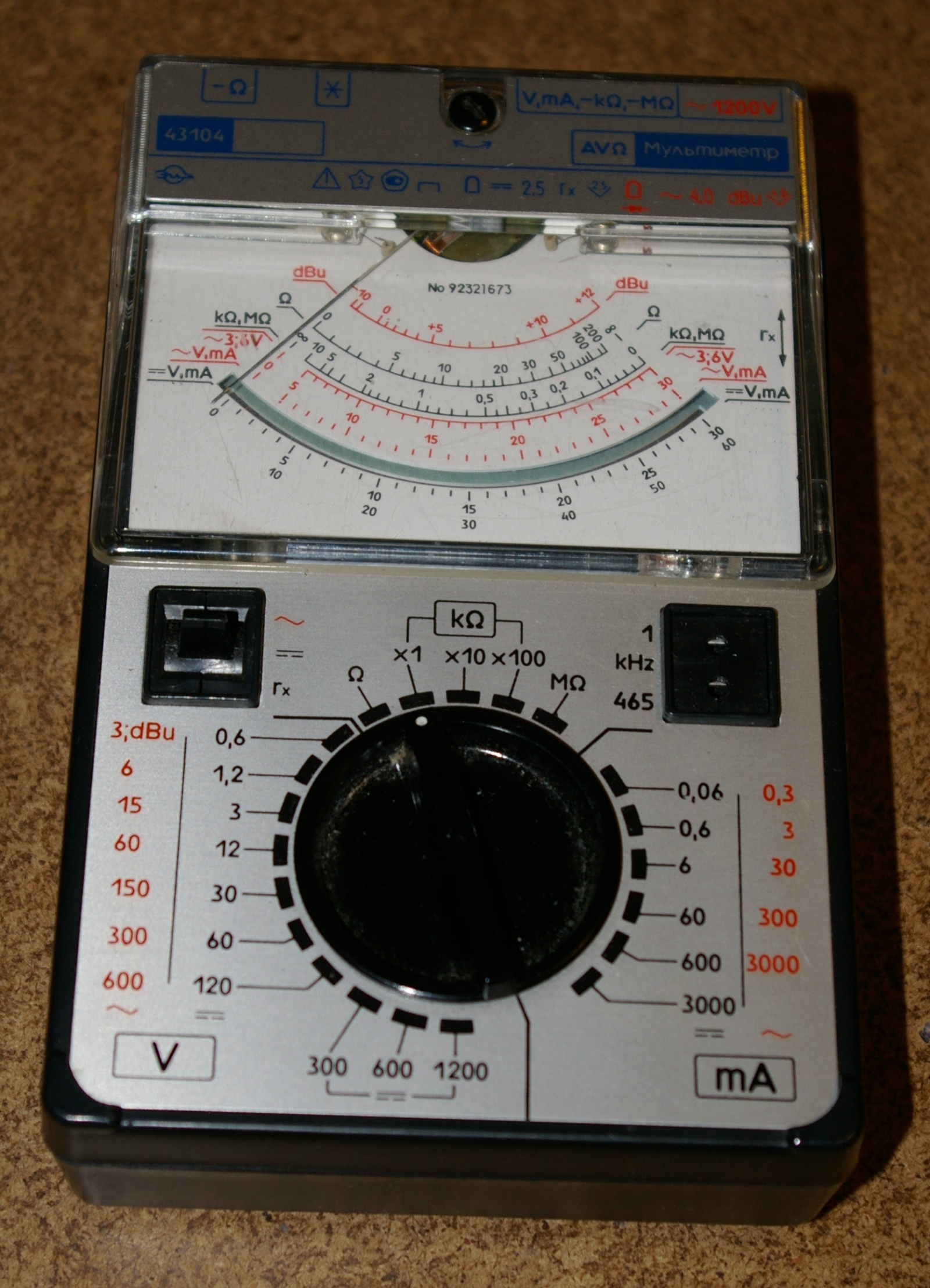 Soviet 43104 type multimeter with built-in test oscillator. Produced by Elektroizmeritel in Zhytomyr